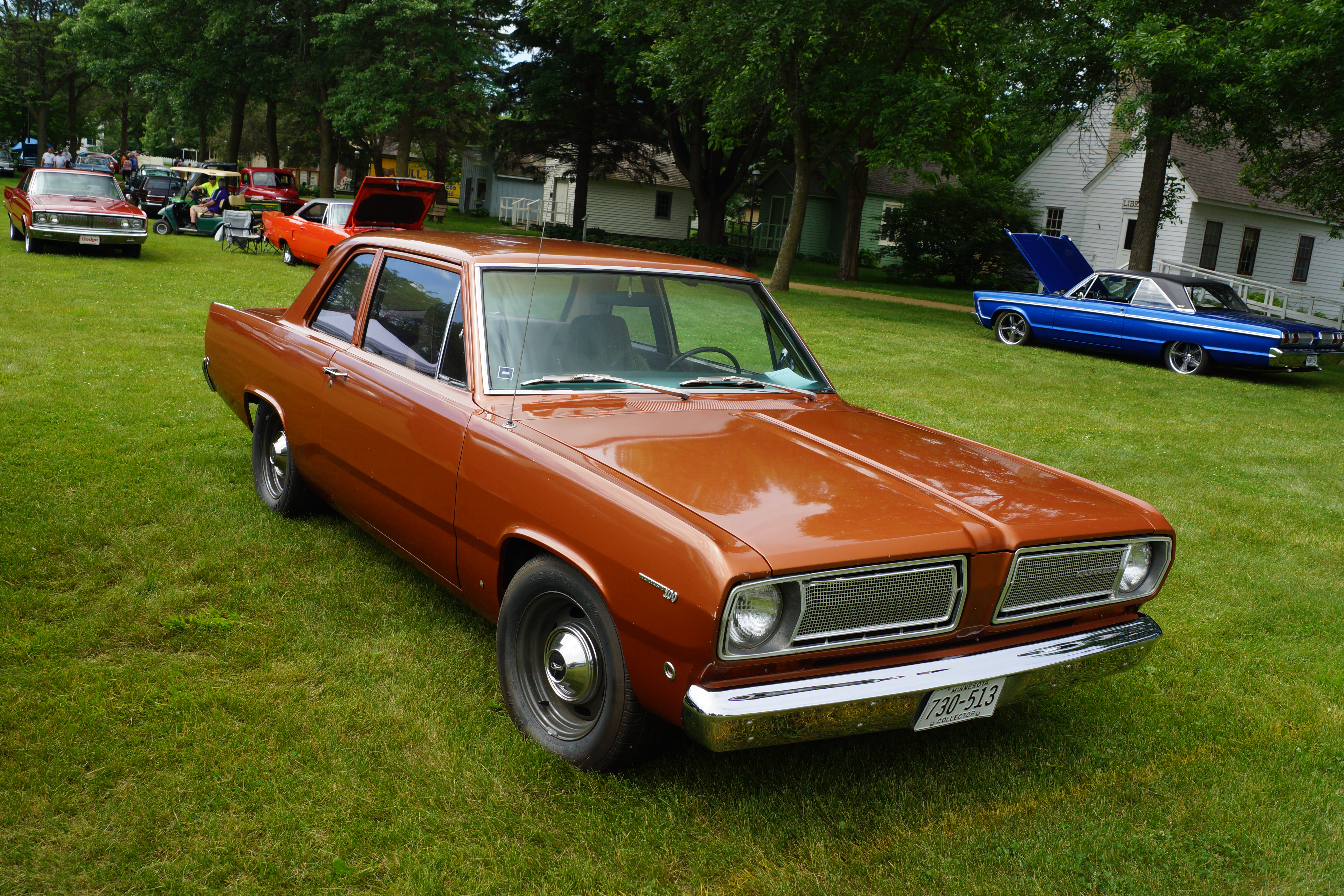 Midwest Mopars in the Park National Car Show & Swap Meet Dakota County Fairgrounds Farmington, Minntesota June 4 & 5, 2016 Click here for more car pictures at my Flickr site.